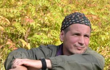 Estonian documentary filmmaker